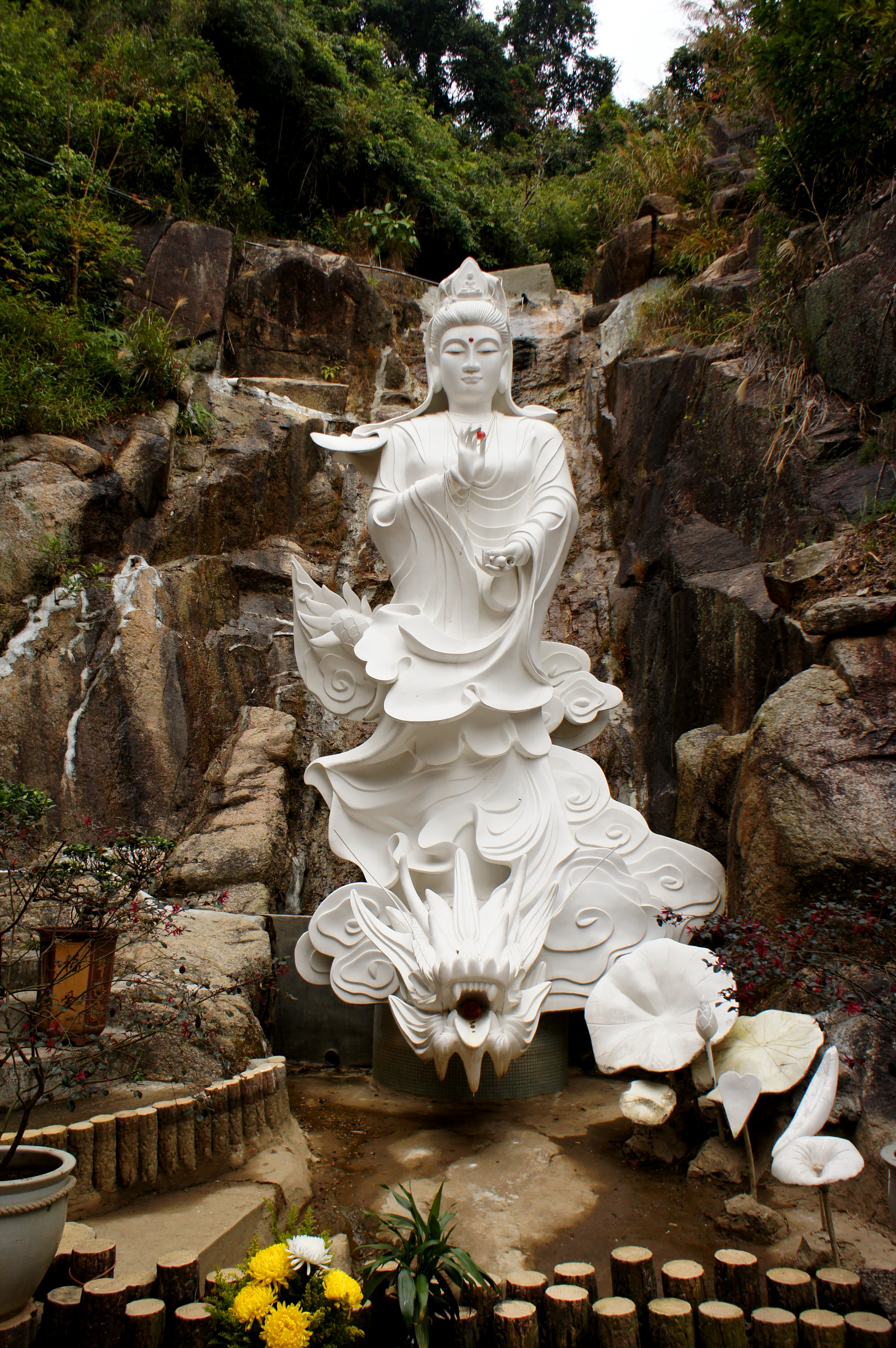 A statue of Guanyin riding on a Dragon, Ten Thousand Buddhas Monastery, Sha Tin, New Territories, Hong Kong.